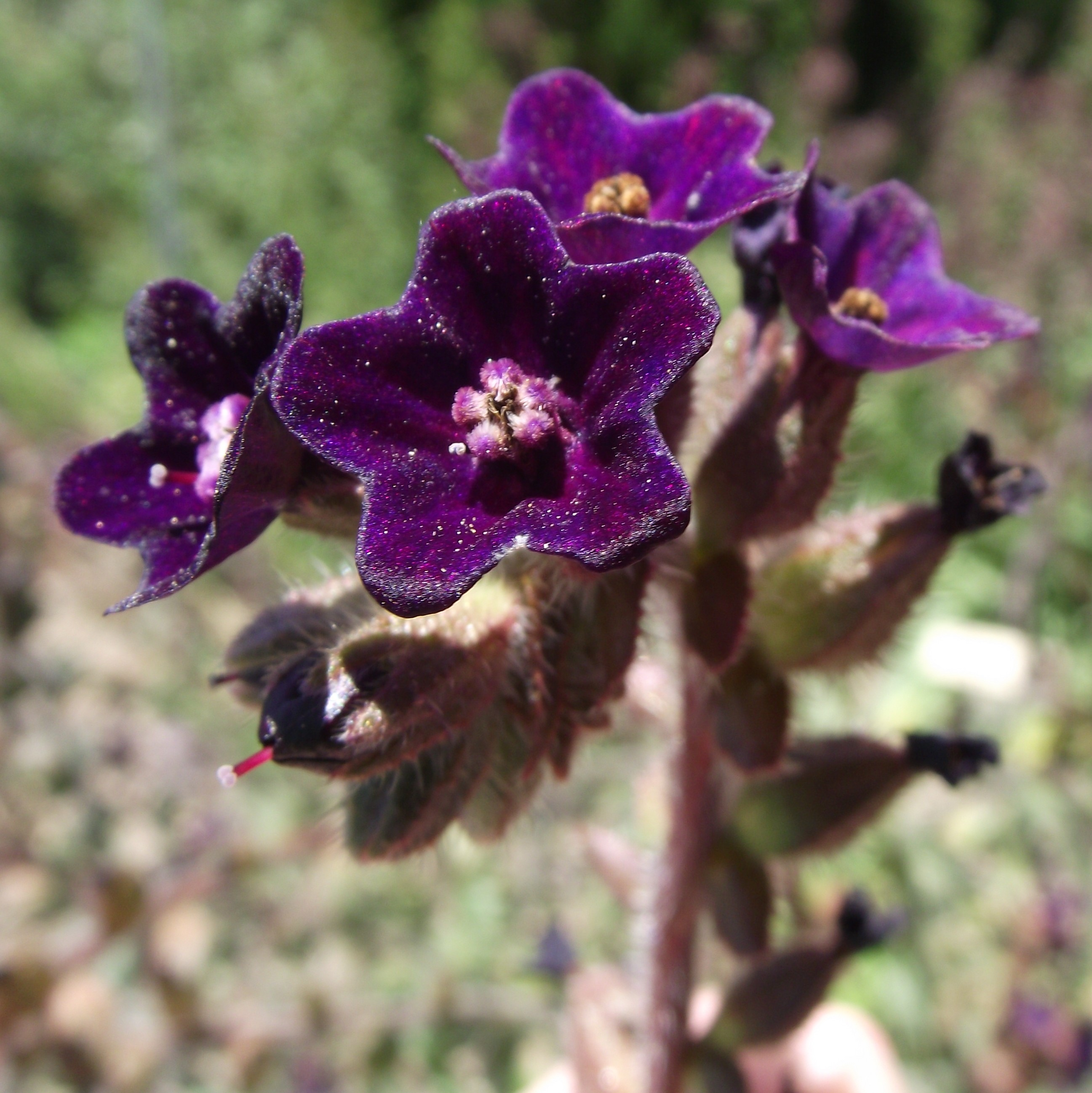 Anchusa undulata ssp. granatensis in the UC Botanical Garden, Berkeley, California, USA. Identified by sign.